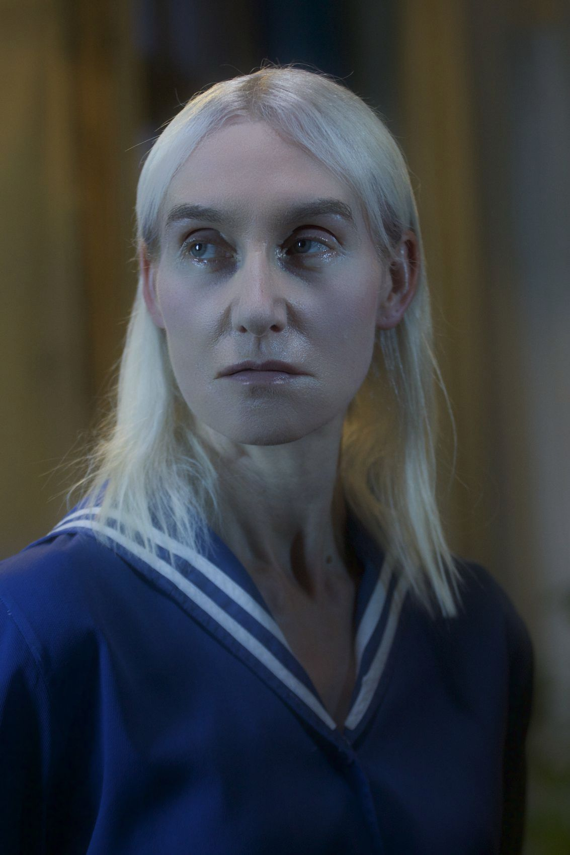 Mika Ela Fisher portrait